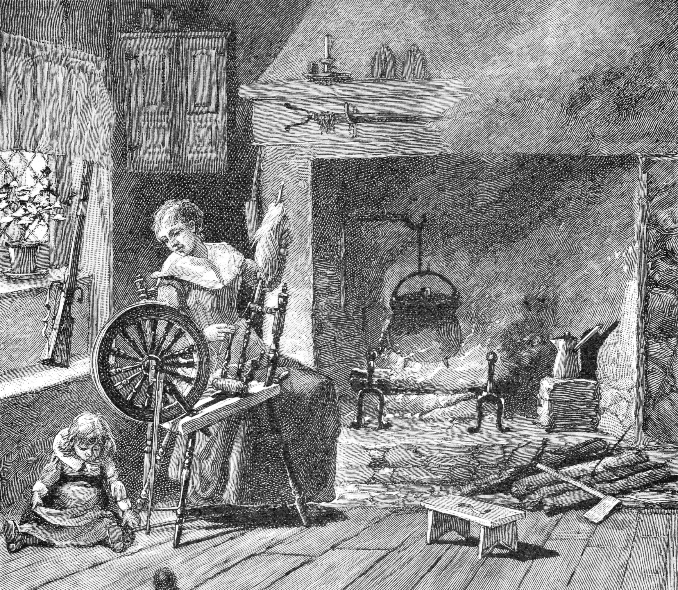 Colonial kitchen with woman spinning, an engraving